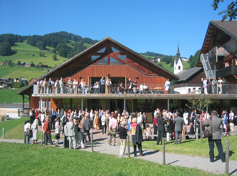 Schwarzenberg, Austria: Angelika-Kaufmann-Saal (during intermission of a matinee recital by the annual Schubertiade Lieder and chamber music festival)